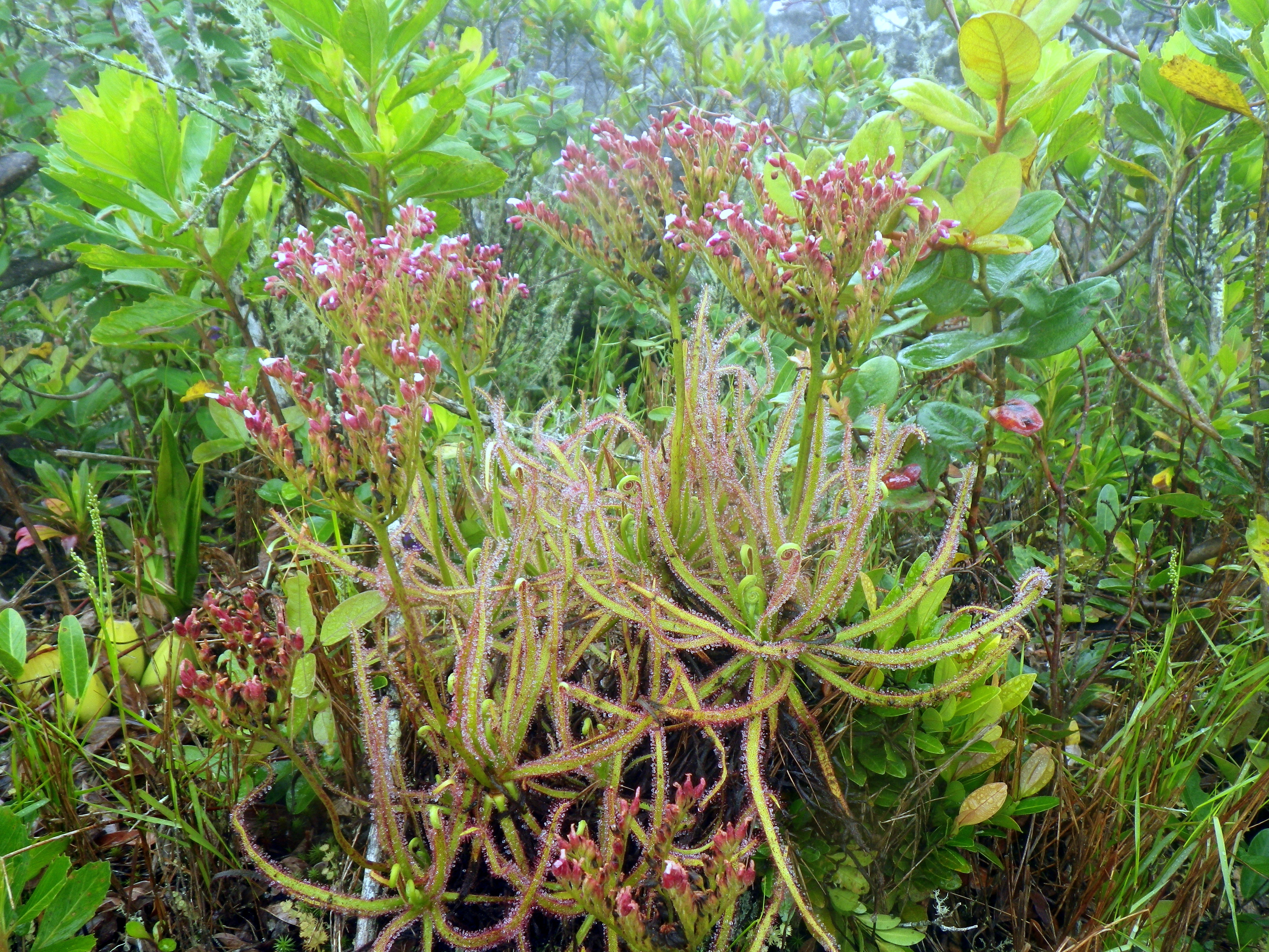 Drosera magnifica in habitat - Brazil